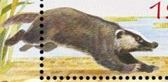 An Asian Badger, as depicted on a stamp of Kazakhstan